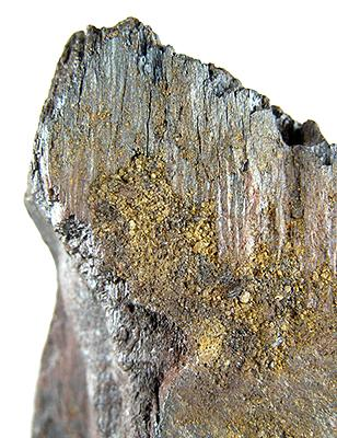 Navajoite Locality: Monument No. 2 Mine, Monument No. 2 channel, Monument Valley, Navajo Indian Reservation, Apache County, Arizona, USA (Locality at ) Size: small cabinet, 7.2 x 6.4 x 4.0 cm Navajoite The patina on the foliated back side of this specimen is similar to that of copper. The front, or display side contains an area of minute, sparkling, silver colored, metallic, vanadium oxide, crystals. They are platy or lameller. The specimen is accompanied by a 1951 label belonging to Otto Ray and a later label out of the collection of Les Presmyk. Navajoite is a very rare hydrated vanadium oxide, and this is an exceedingly rich specimen from teh type locality!